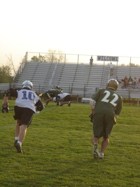 John F. Kennedy High School vs. Blake Bengals in Men's Lacrosse 2007. A face-off #22- Teddy Wescott '07